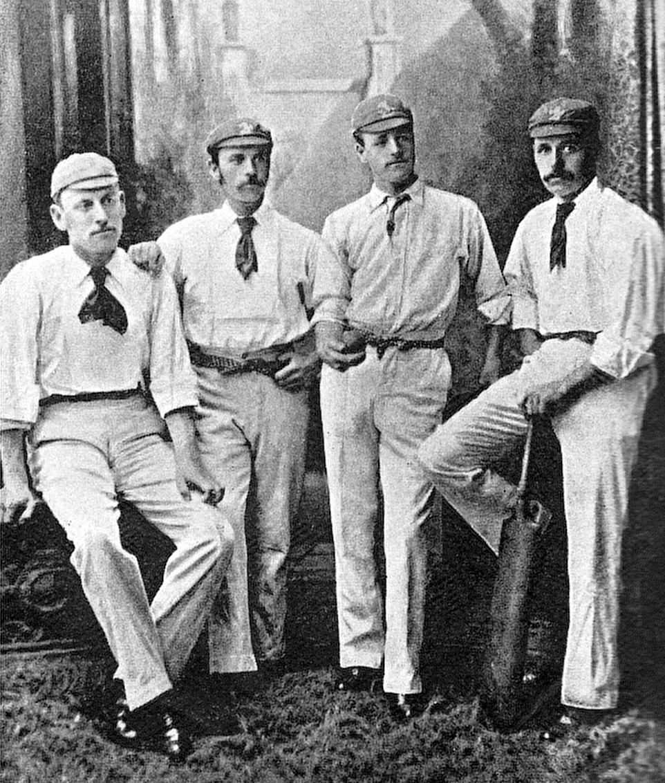 Scan of the cricketing Hearne family